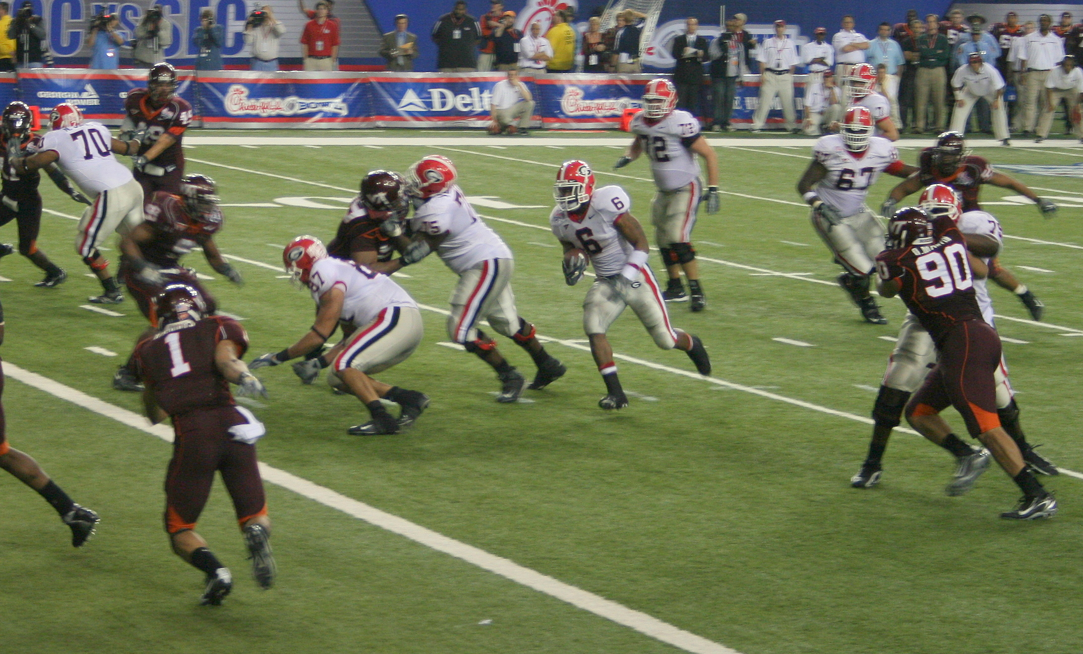 The Virginia Tech Hokies football team and Georgia Bulldogs face each other in the 2006 Chick-fil-A bowl in Atlanta, Georgia.